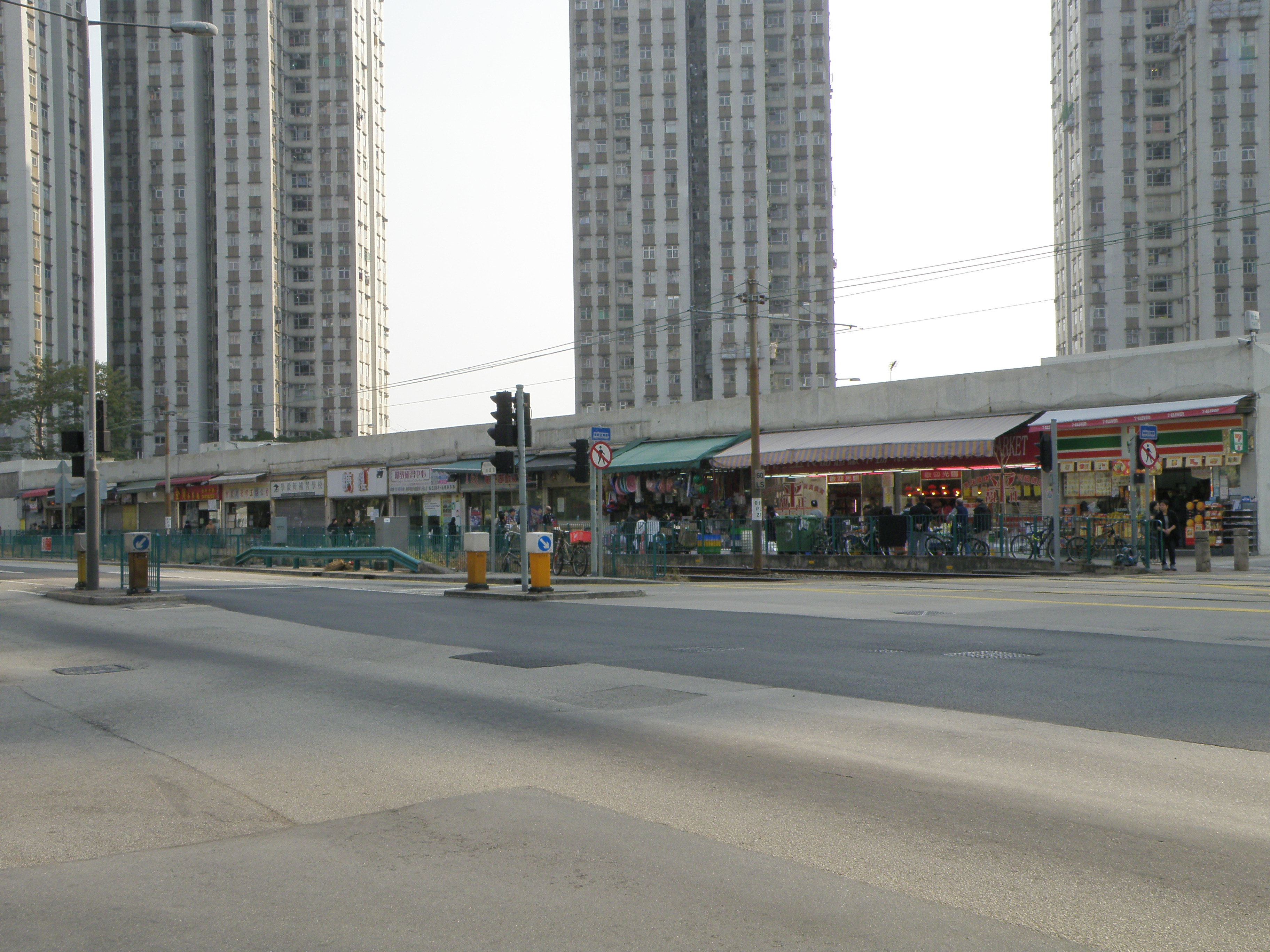 Melody Garden in Tuen Mun, Hong Kong.